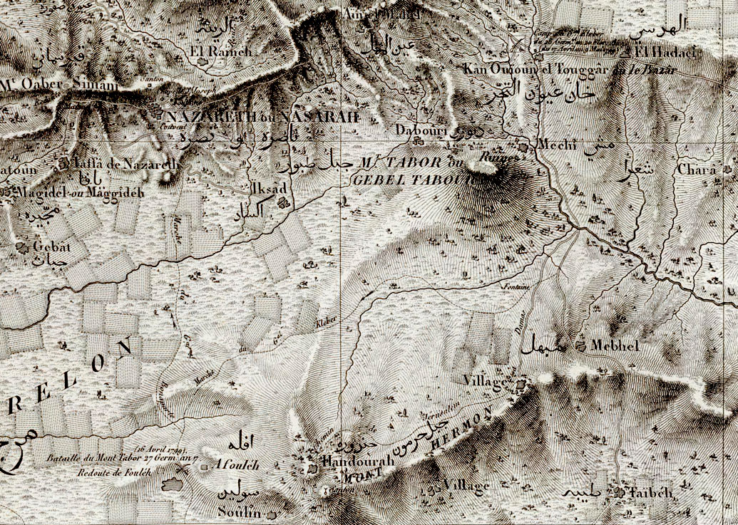 Region southeast of Nazareth in 1799